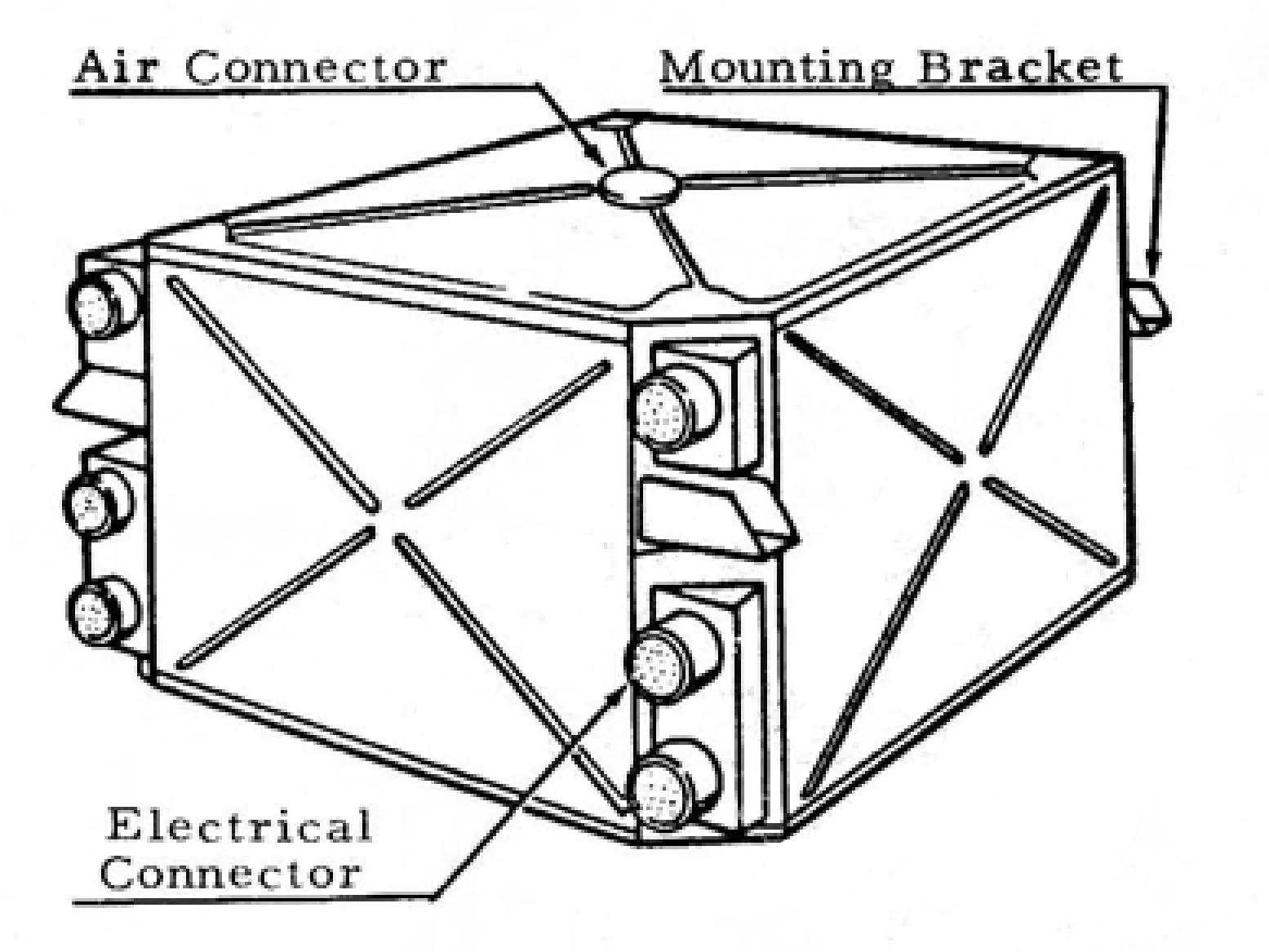 Drawing of the Missile Guidance Computer used on Titan II, the ASC-15 made by IBM in Owego, NY